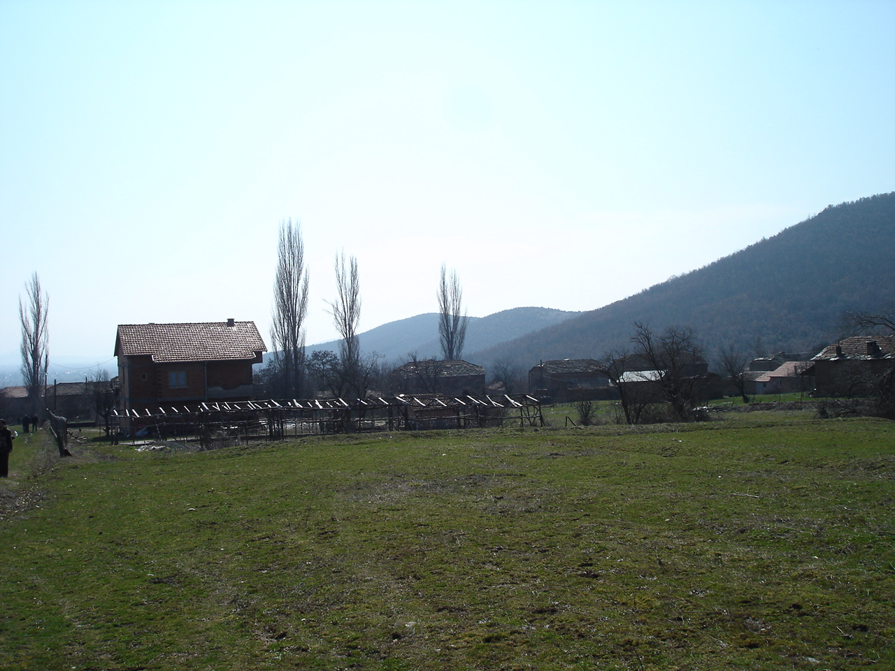 village of Rilevo,Macedonia